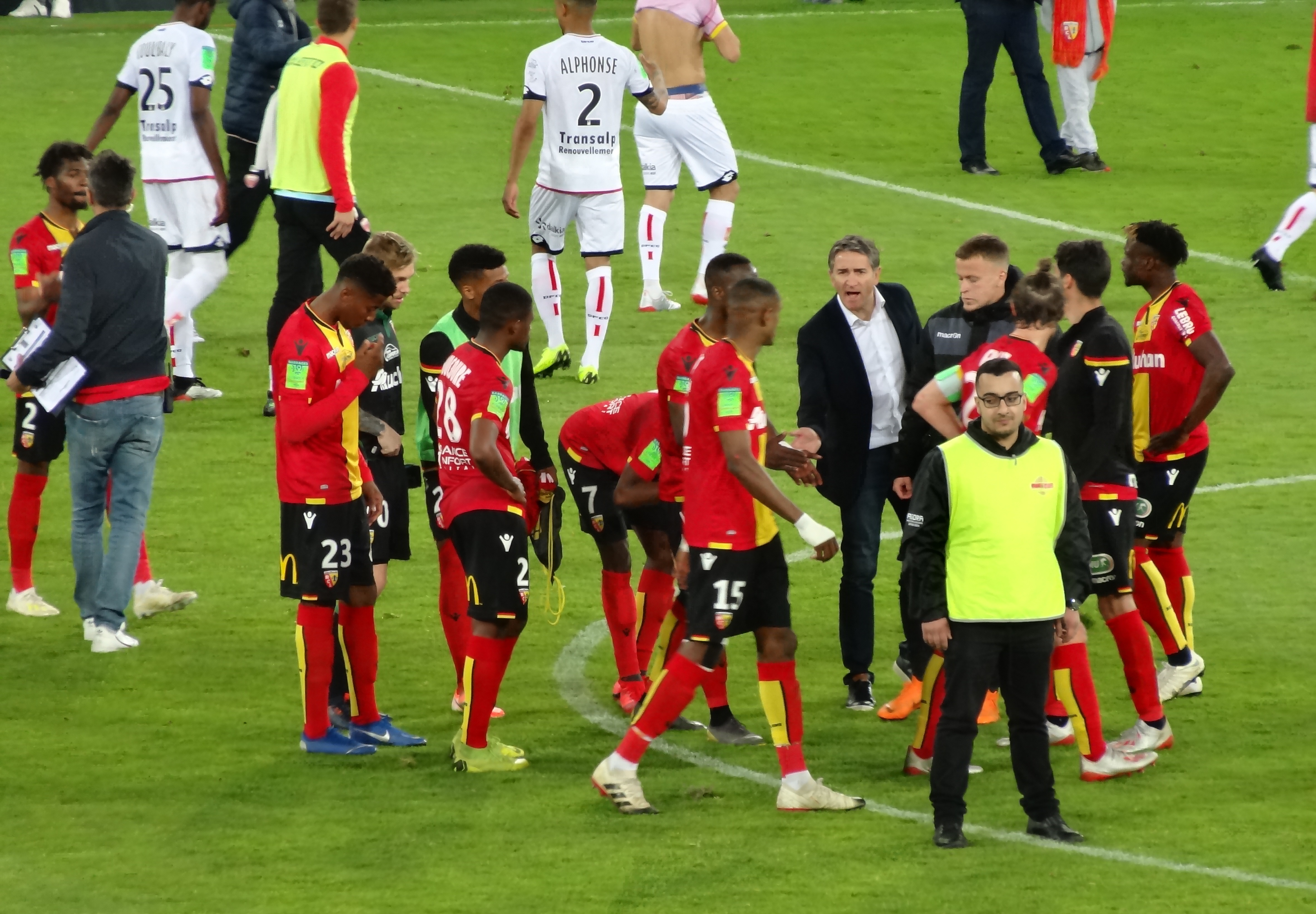 Lens - Dijon, barrage L1-L2 2019